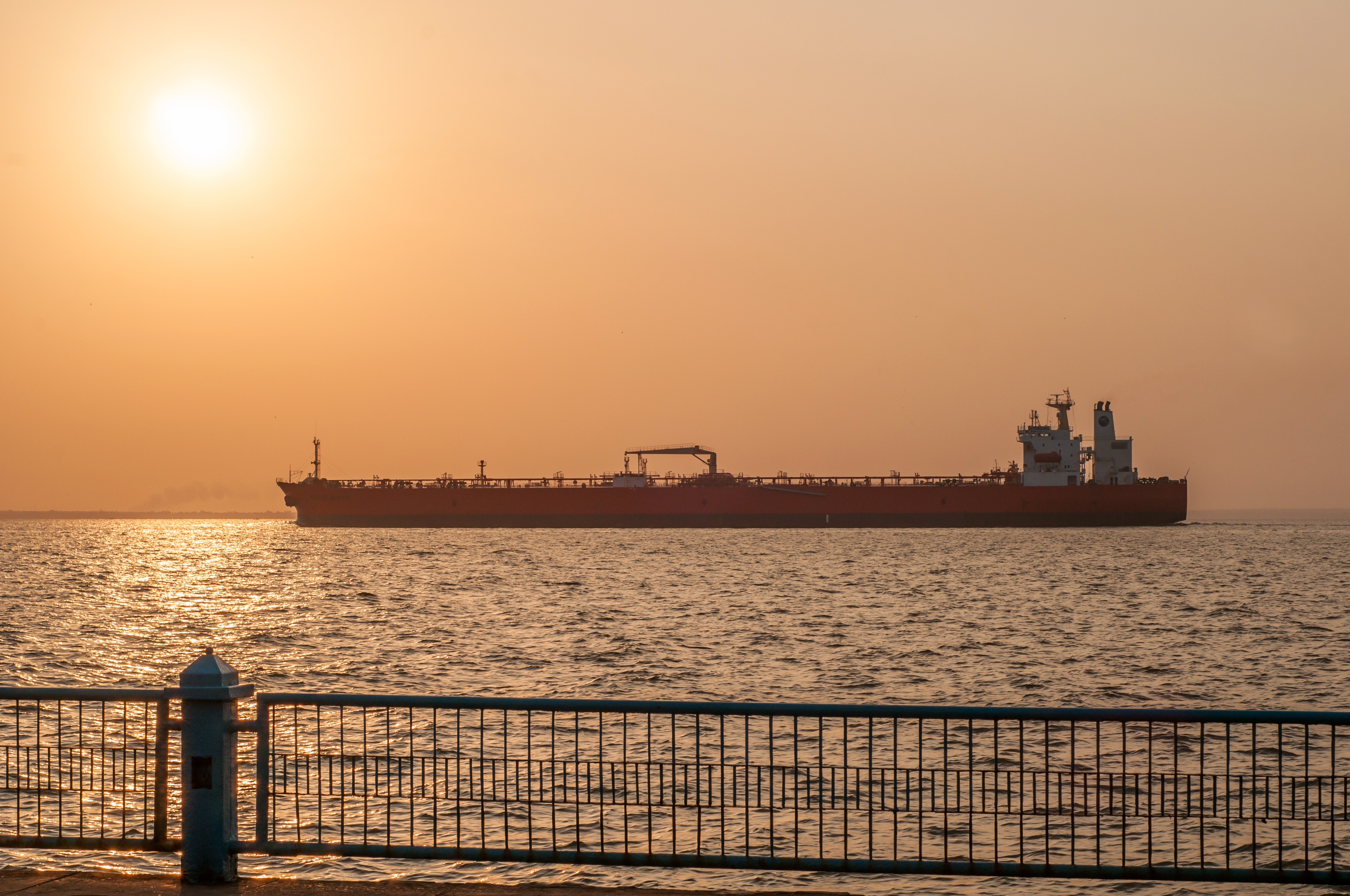 Eagle Austin in Maracaibo lake [1] Ship Type: Crude oil tanker Year Built: 1998 Length x Breadth: 244 m X 42 m Gross Tonnage: 58156, DeadWeight: 105426 t Speed recorded (Max / Average): 12.5 / 9.8 knots Flag: Singapore [SG] Call Sign: S6TB IMO: 9176022, MMSI: 564754000